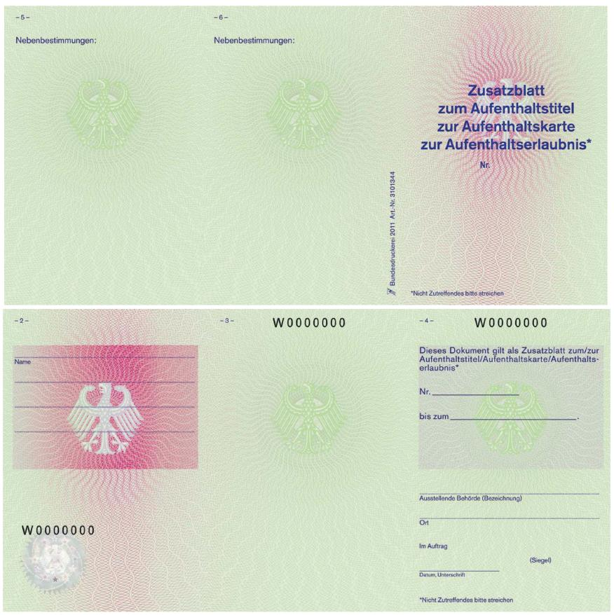 Sample of an additional sheet of a residence permit (electronic version) in Germany